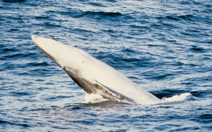 A breaching rorqual showing gray upper half of lower jaw.